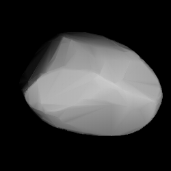 3D convex shape model of 1223 Neckar, computed using light curve inversion techniques. J. Hanuš, J. Ďurech, M. Brož, B. D. Warner (June 2011). "A study of asteroid pole-latitude distribution based on an extended set of shape models derived by the lightcurve inversion method". Astronomy and Astrophysics 530: A134. ISSN 0004-6361. arXiv